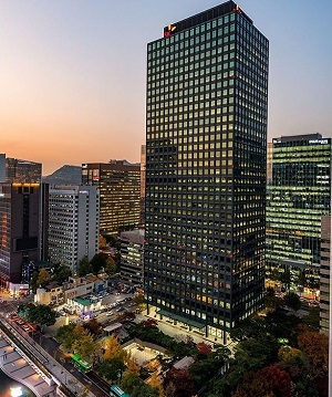 SK Building